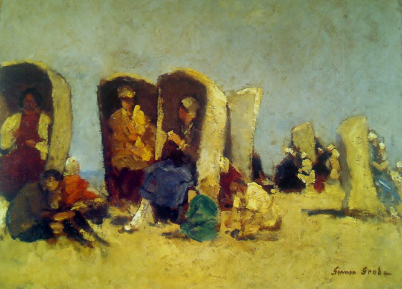 Vrouwen in strandstoelen